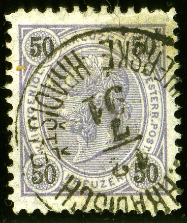 Austrian KK 50 kreuzer stamp, bilingual cancelled at Ungarisch Hradisch - Uherské Hradiště (Moravia) in 1891.